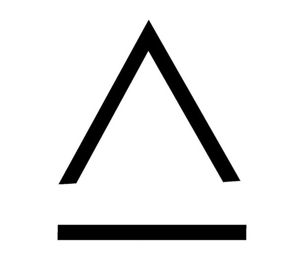 The logo of rock band Saint Asonia.